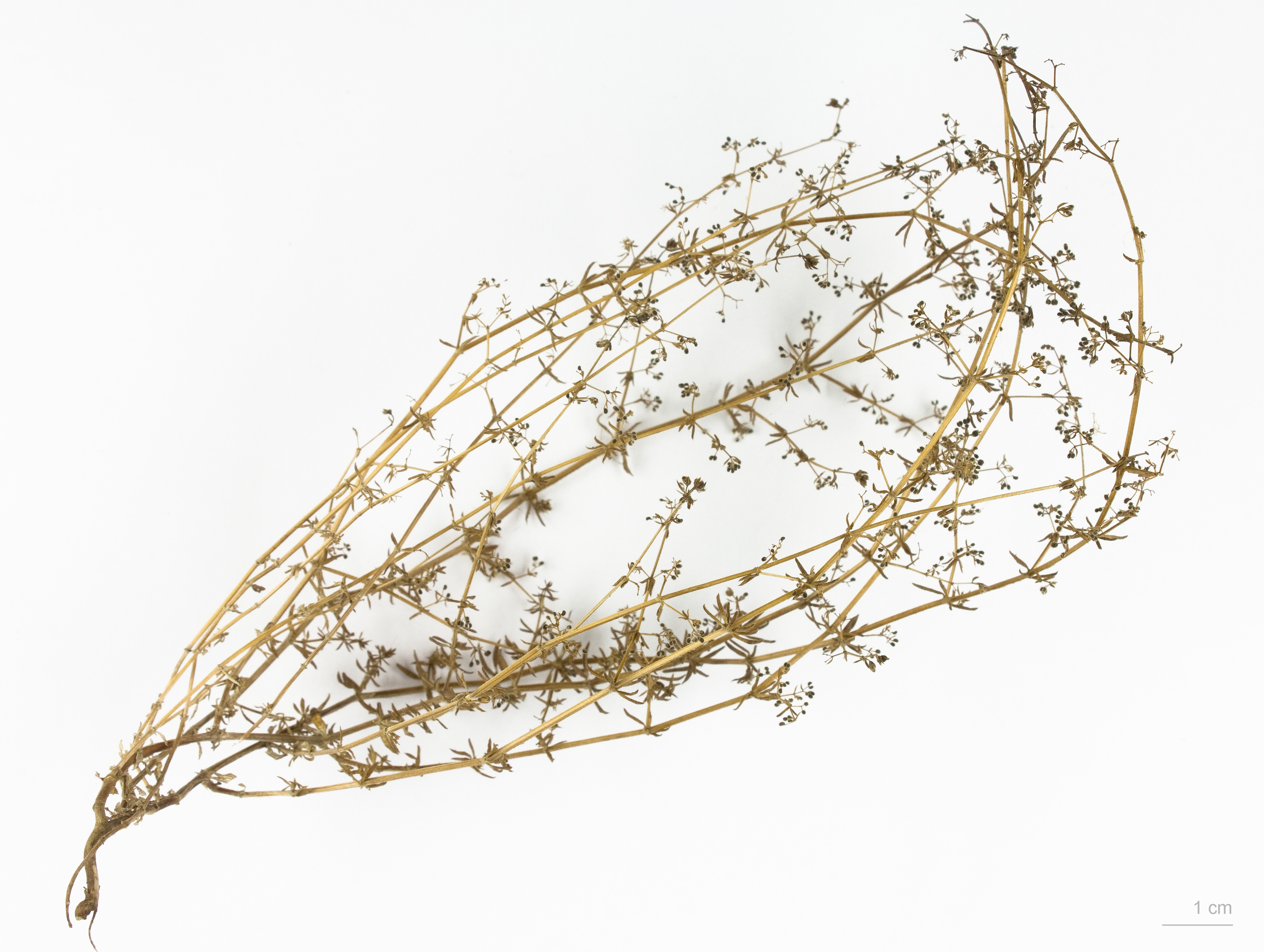 wall bedstraw , fruits and seeds